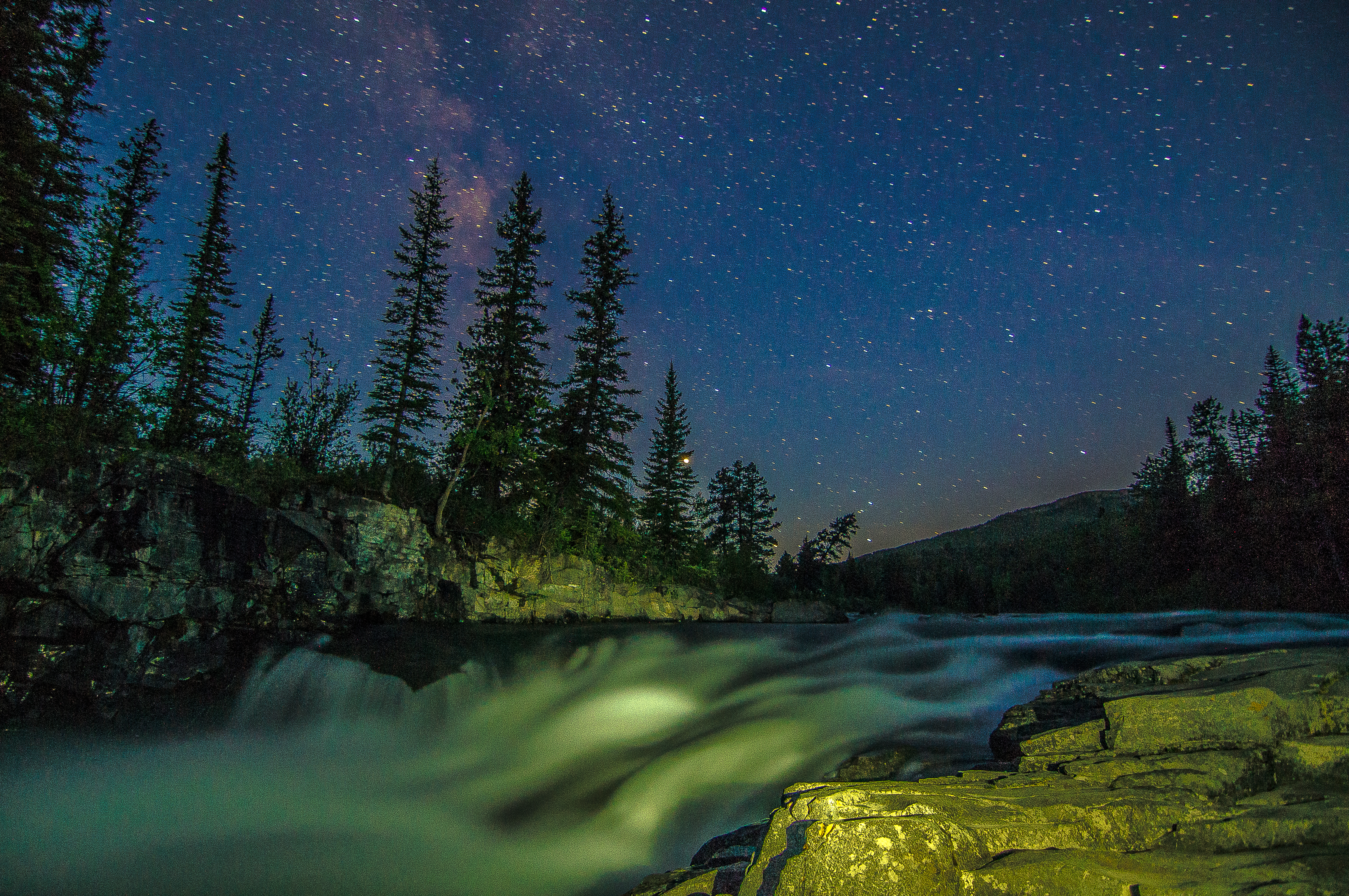 Q28479055 - Castle Provincial Park This photo was taken in a protected area in Canada, Wikidata item Castle Provincial Park (Q28479055)